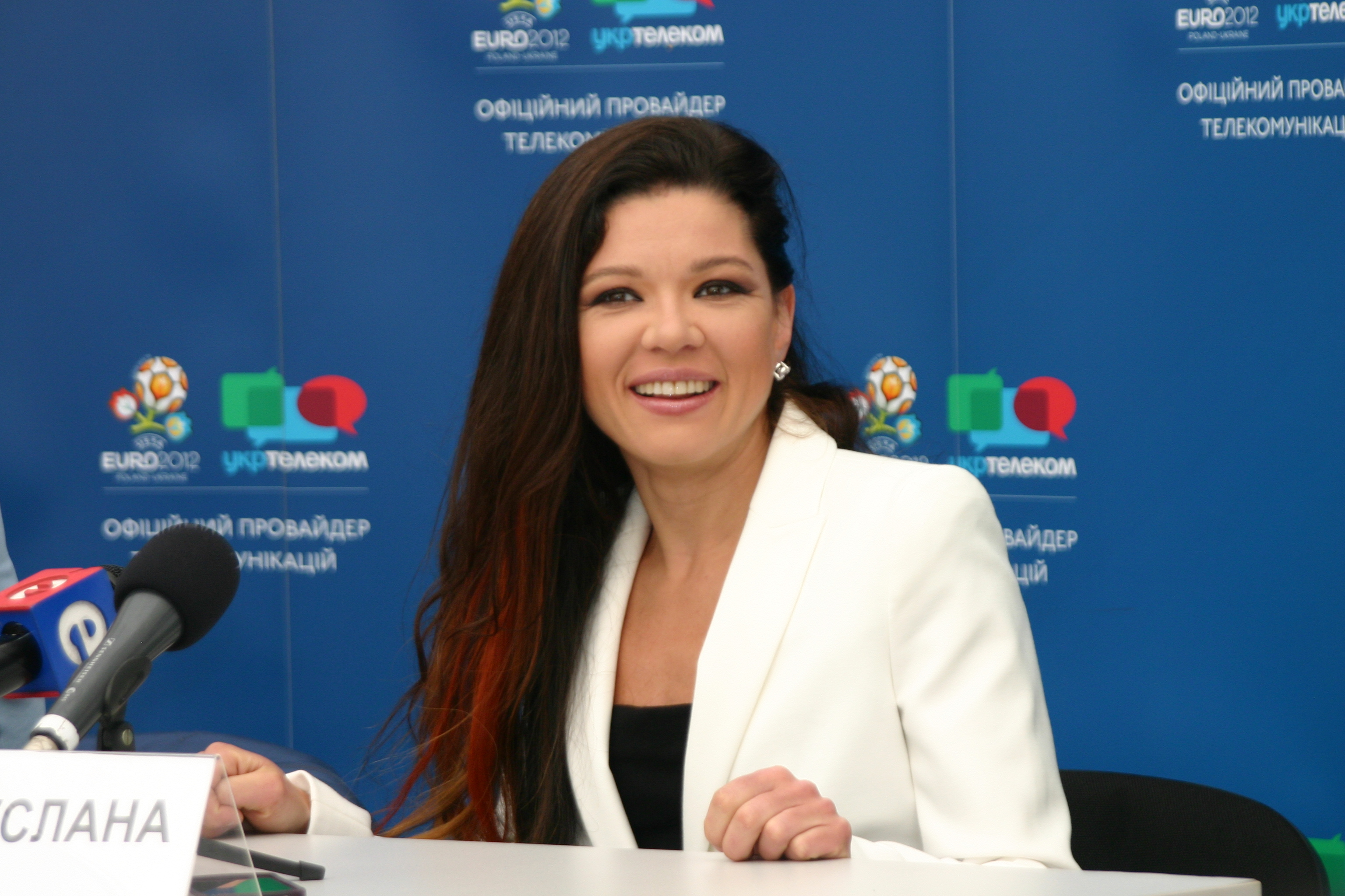 Ruslana at a press conference prior to her concert in Kiev, 19th May 2012